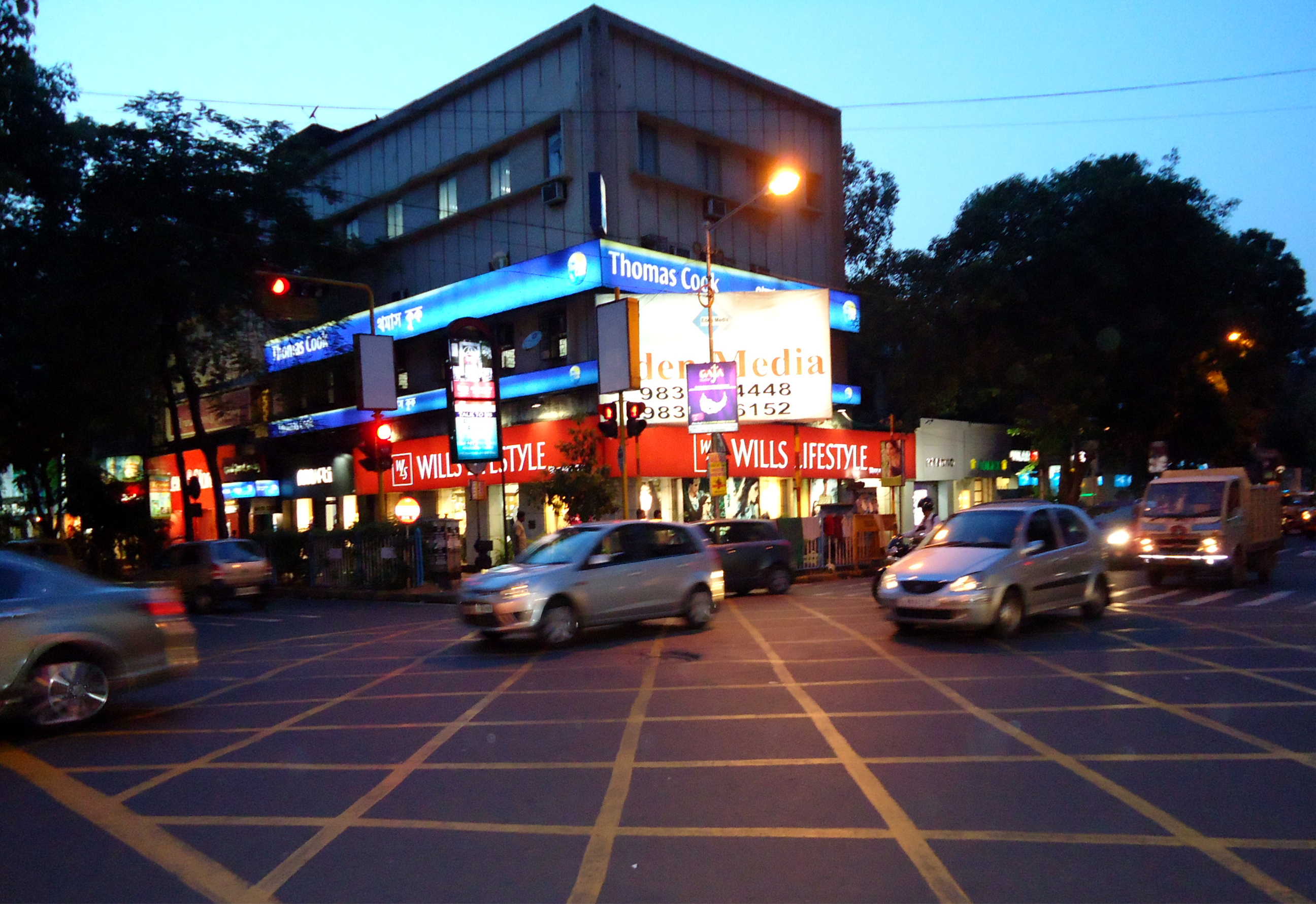 Retail stretch along Camac Street